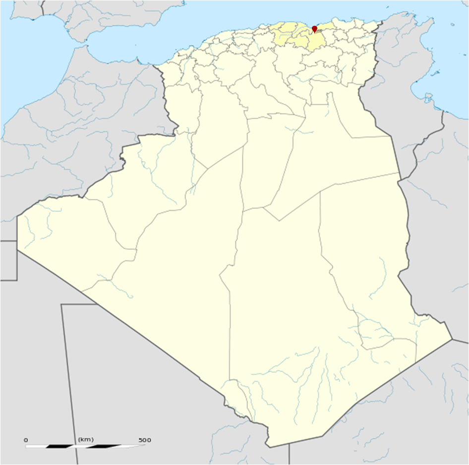 Kabylie location